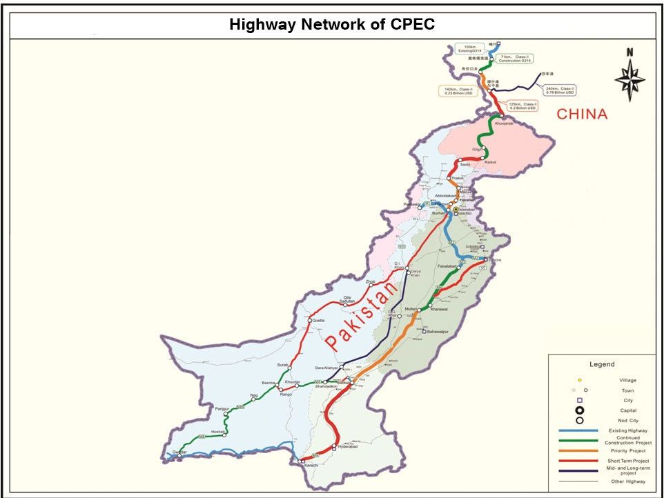 It describes Eastern Western and Central alignment of CPEC